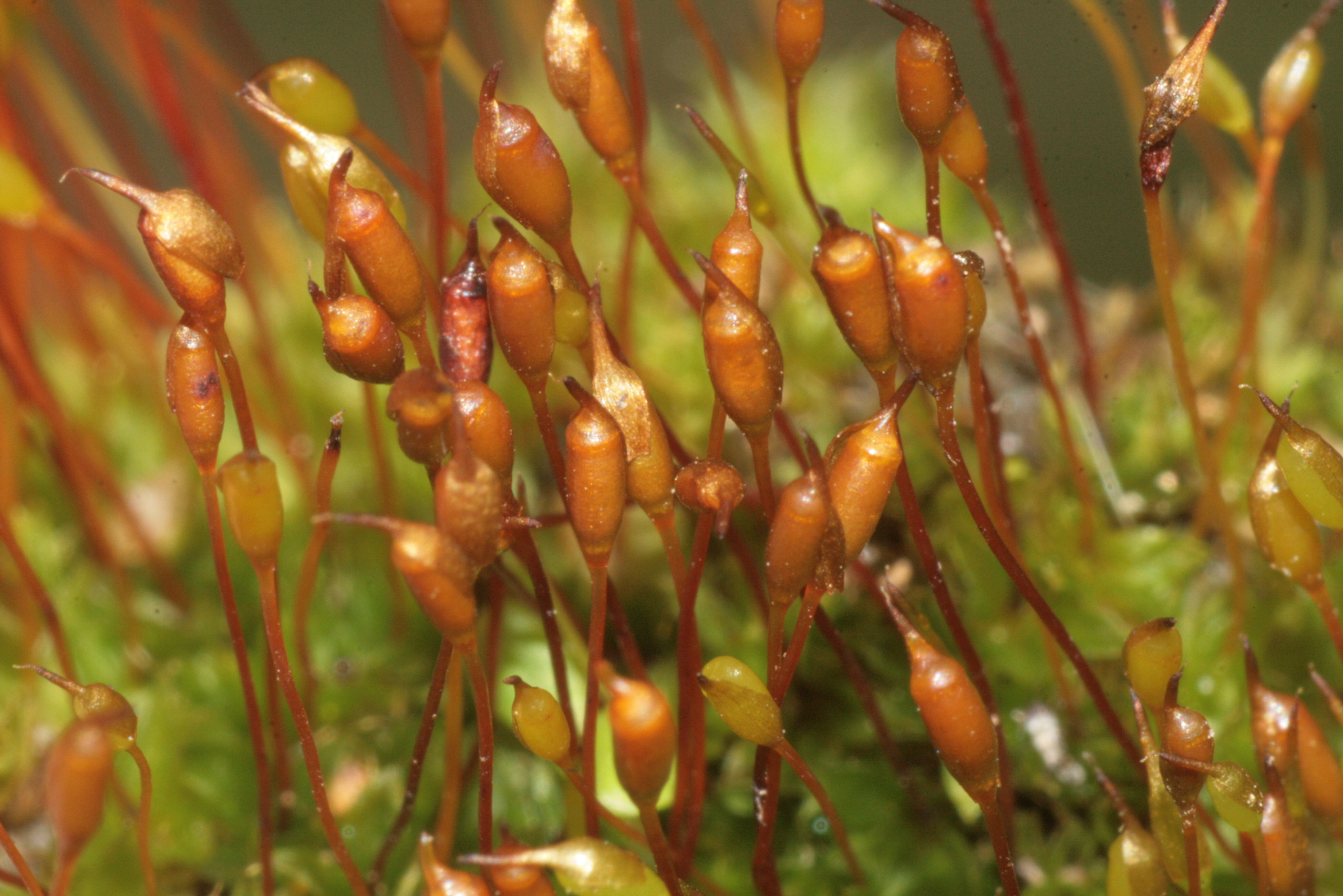 Tortula modica